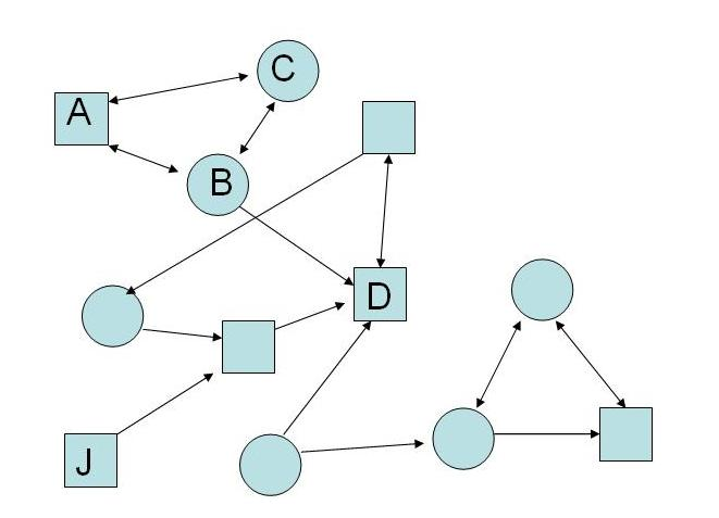 Sociogramme